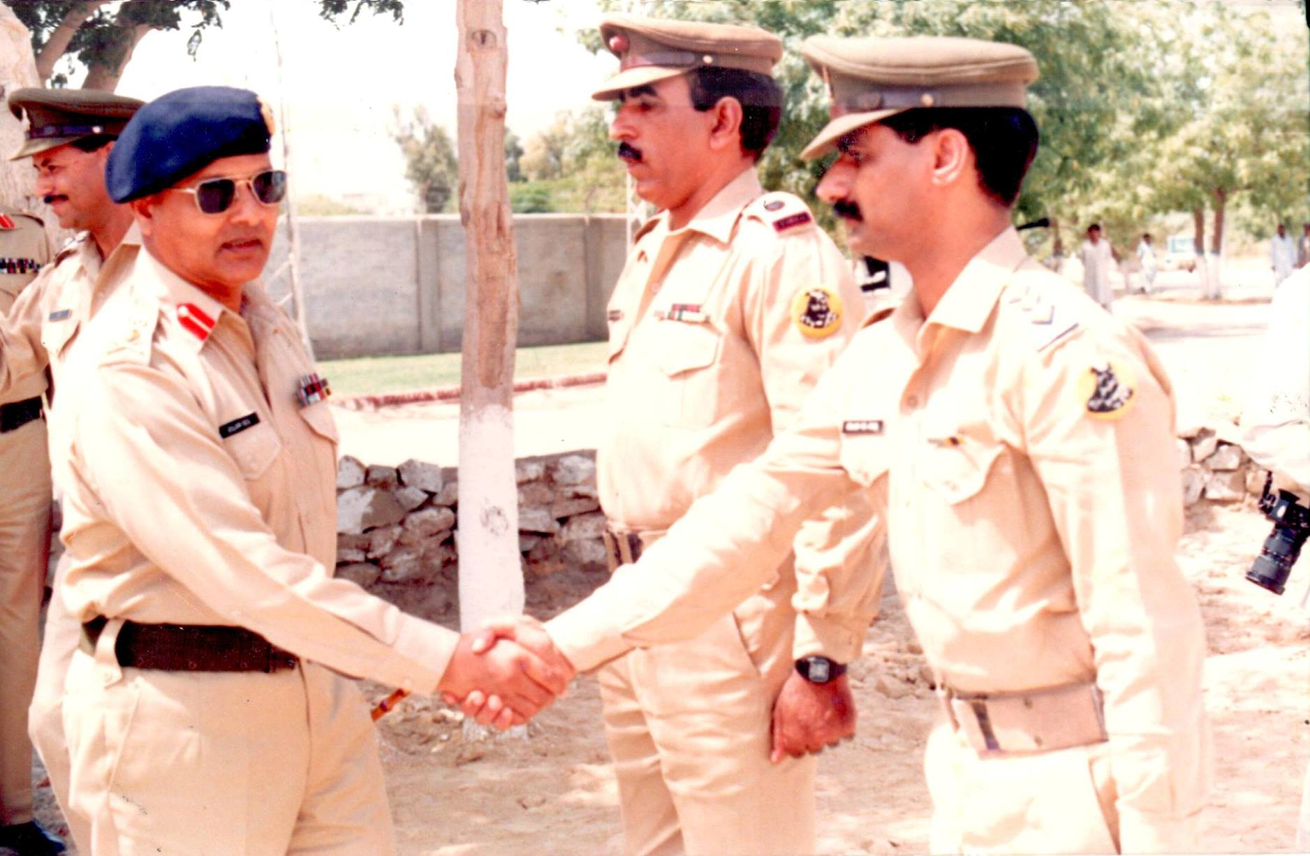 Gen Mirza Aslam Beg visit